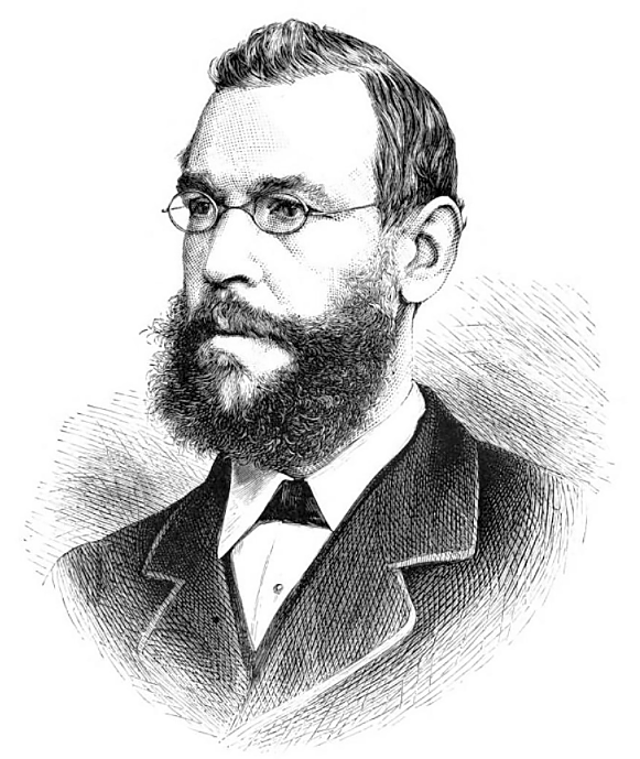 This is a portrait of the British inventor, engineer and metallurgist Thomas Whitwell.